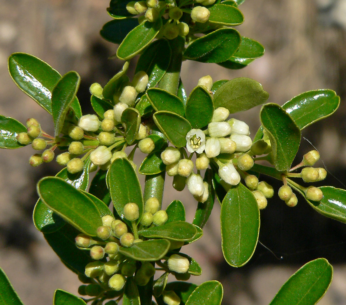 Discaria chacaye at the University of California Botanical Garden, Berkeley, California